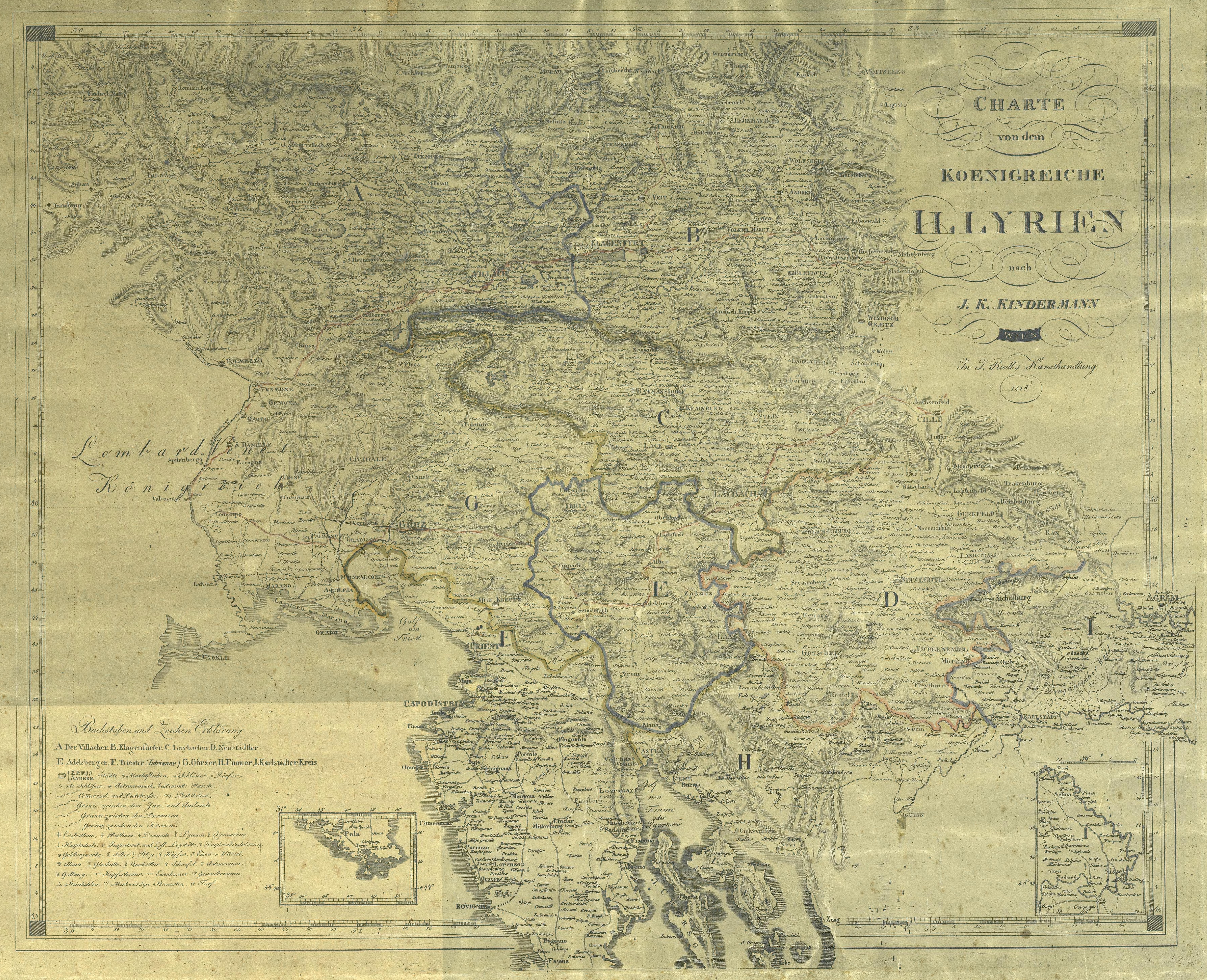 Map of Illyrian kingdom